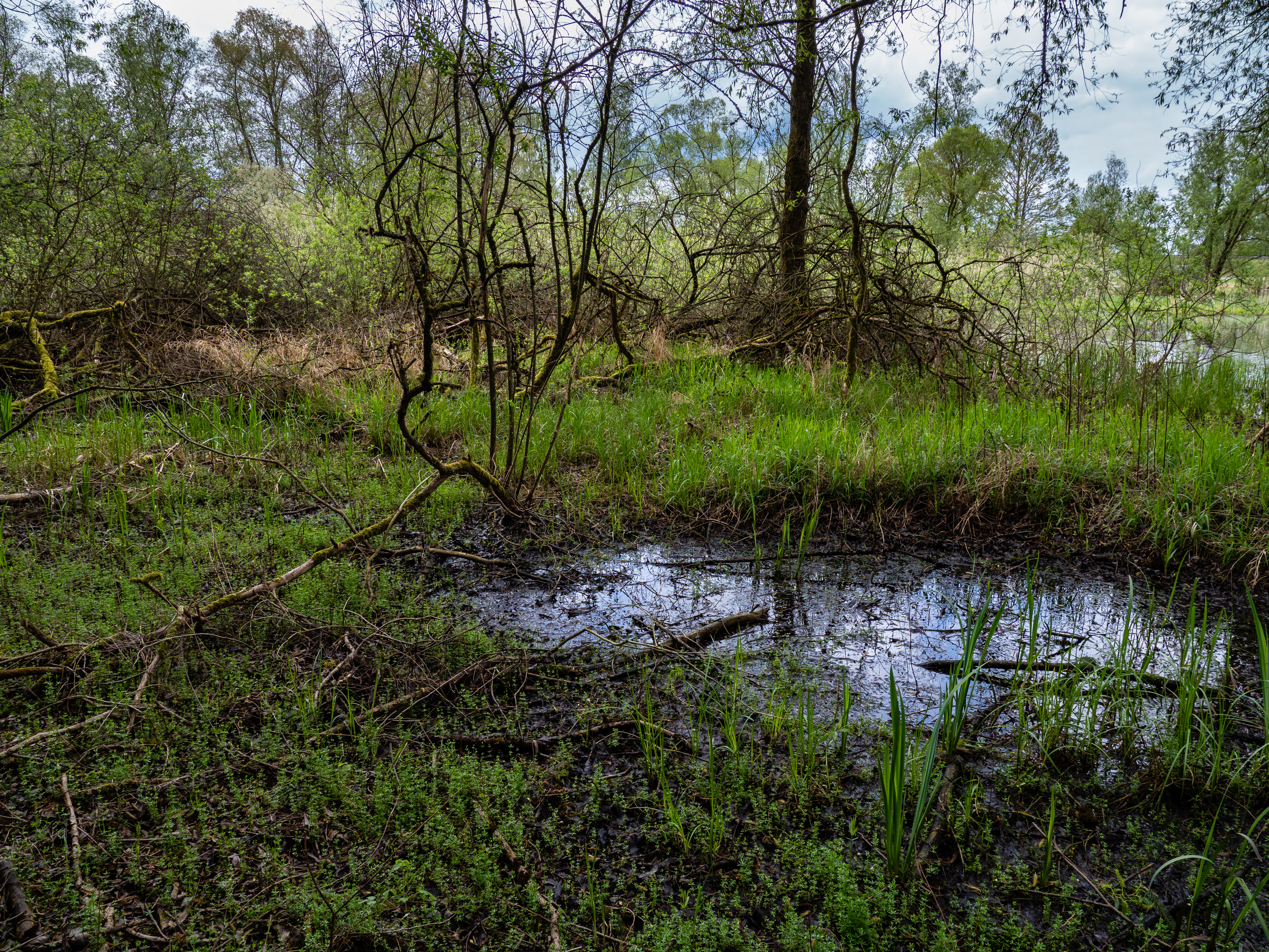 Nature reserve Gaabsweiher near Lichtenfels